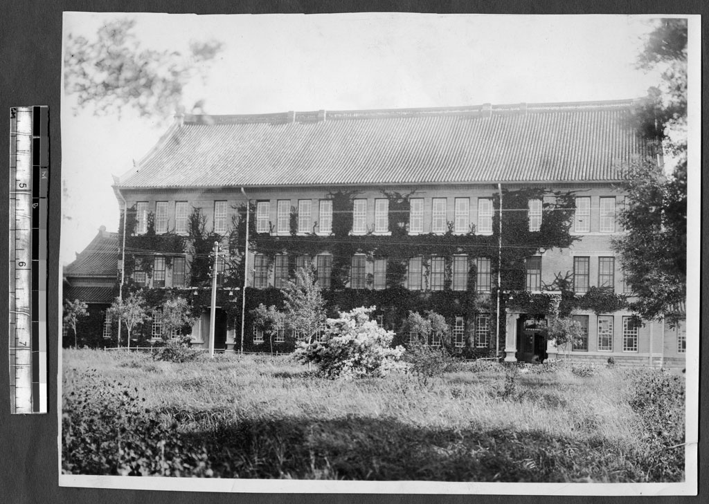 Bergen Hall chemistry building, Cheeloo University, Jinan, Shandong, China, ca.1924. Source YDS/RG011/414/5873/4826, Yale Divinity Library Special Collections. Uploaded to Wikimedia Commons with permission from Yale Divinity Library.